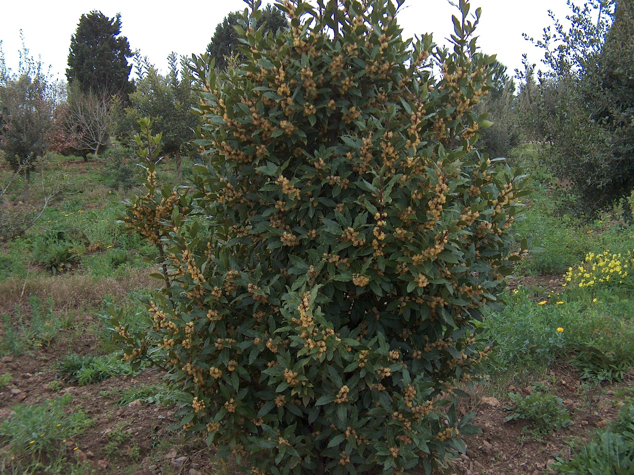 Shrub of Laurus nobilis with flowers (Place: Professional Institute of Agriculture and Environment "Cettolini" Villacidro, Sardinia, Italy).